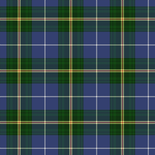 The official tartan of the Canadian province of Nova Scotia, created in 1953. Thread count: 1 red 2 yellow 8 dark green 4 green 2 dark green 2 green 2 dark green 20 blue 2 white 20 blue 2 dark green 2 green 2 dark green 4 green 8 dark green 2 yellow